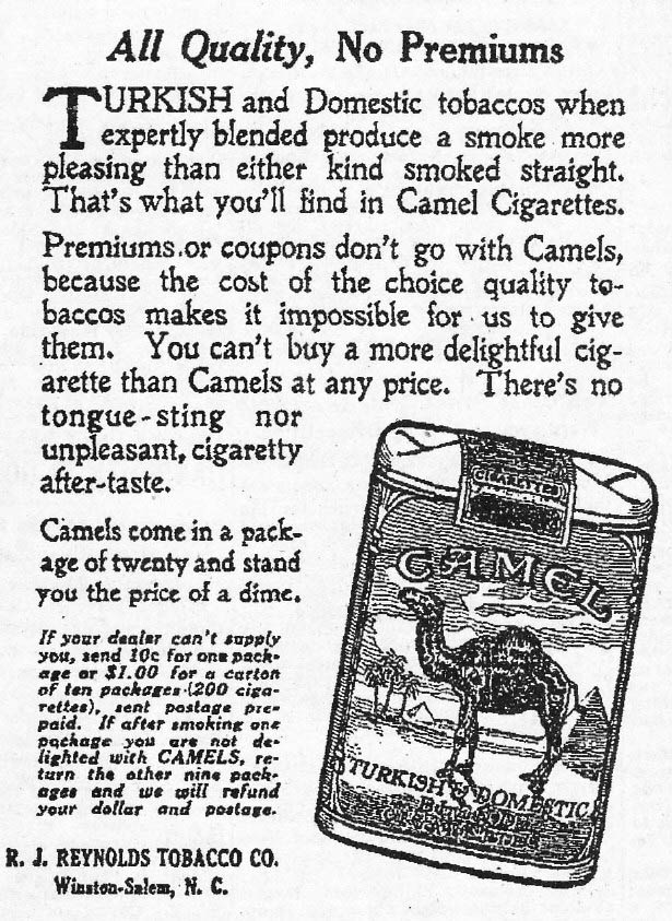 Advertisement for Camel cigarettes appearing in the January 12, 1915, edition of the New York Times